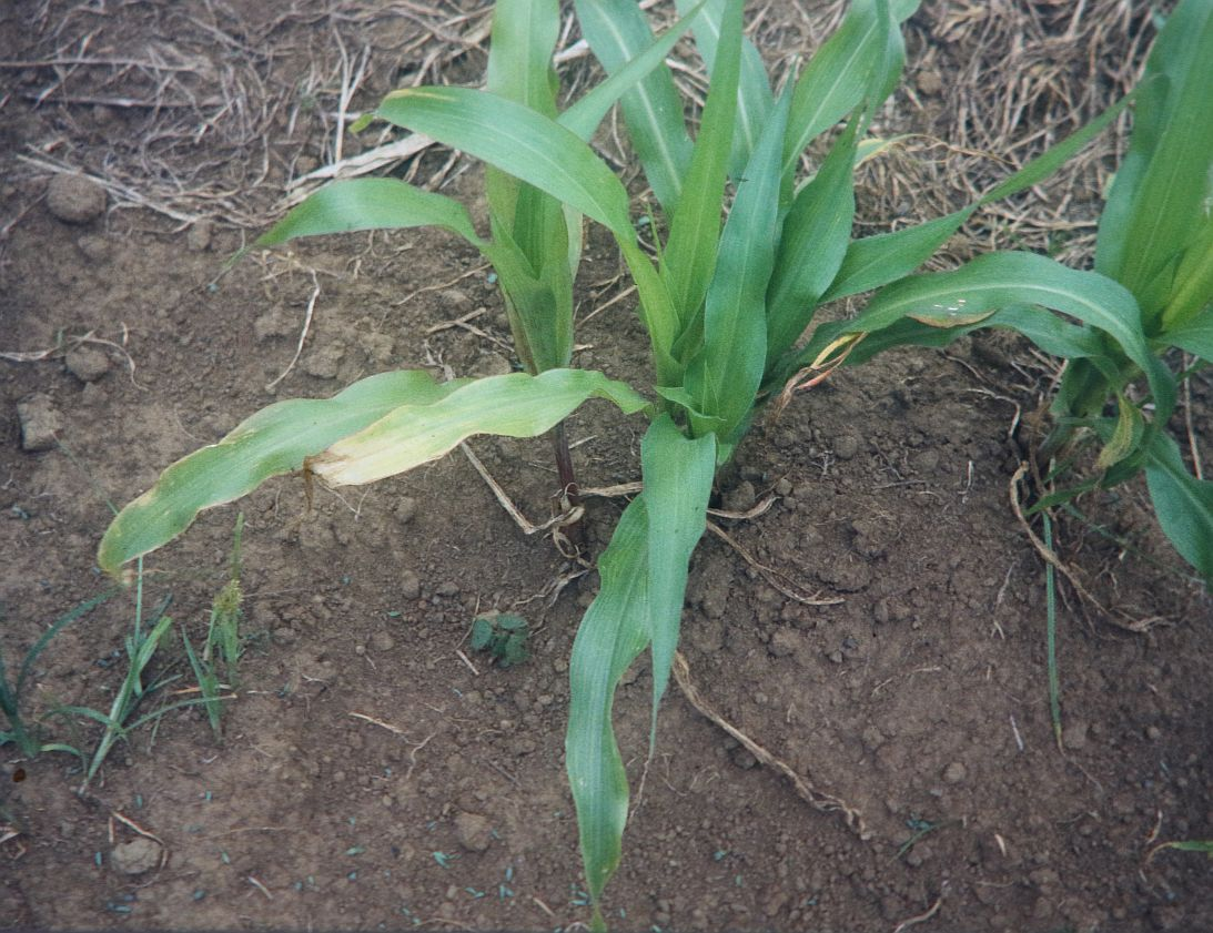 Molybdenum deficiency symptoms in young maize plants. The seed planted by this subsistence farmer was open-pollinated seed that was produced on acid, low-Mo soils. The combination of low-Mo seed and an acid, low-Mo soil has resulted in severe Mo deficiency. In Vulindlela, KwaZulu-Natal.